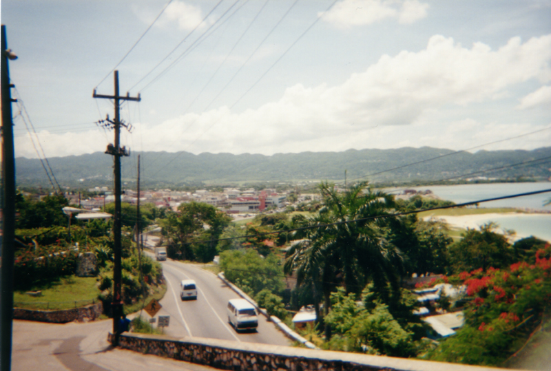 Montego Bay, Jamaica. September 2000.